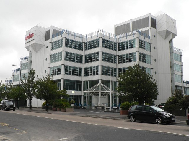 Bournemouth: 100 Holdenhurst Road One of Bournemouth's most striking modern buildings, this is the front of 615836.